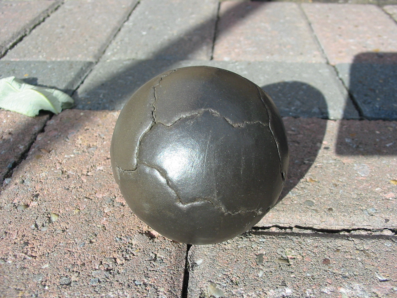 It has obvious cracks because it's made without any sand, but it doesn't seem to be weaker in any way. I think it looks pretty cool, but I would rather it was smooth. EDIT: New cracks are beggining to appear... I'd give it a week.